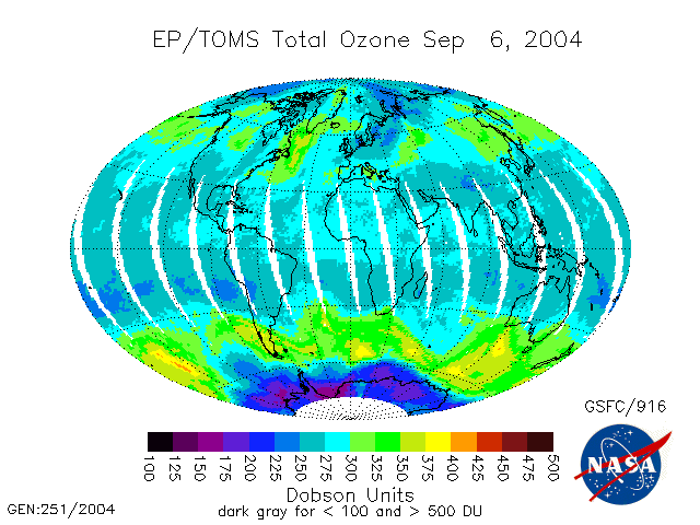 TOMS piccy from ftp://toms.gsfc.nasa.gov/pub/eptoms/images/global/Y2004/FULLDAY_GLOB.PNG This picture was uploaded from for use in the Total Ozone Mapping Spectrometer article. I believe it may reasonably assumed to be OK under fair use.